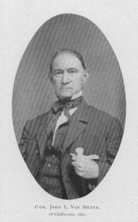 John I. Vanmeter, member of the United States House of Representatives from Ohio.